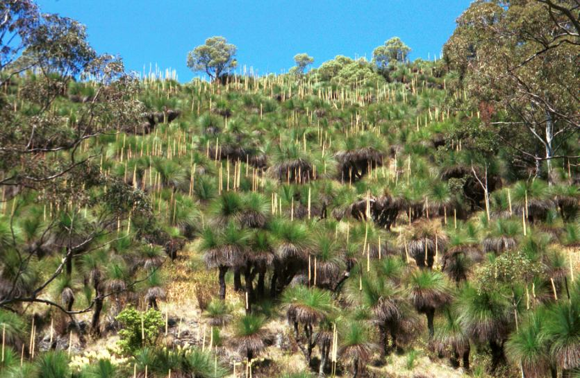 Xanthorrhoea glauca_flowers_-__Mt_Cabrebald_hillside